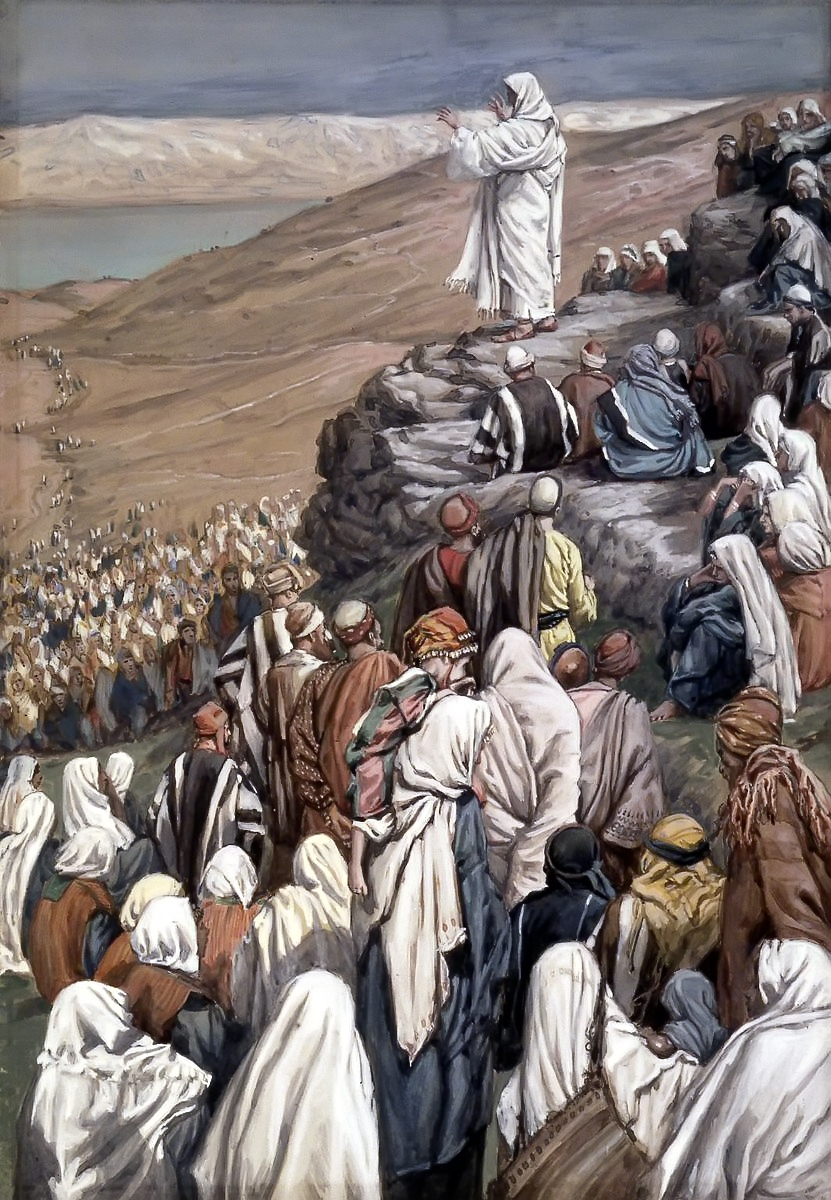 The Sermon of the Beatitudes (1886-96) by James Tissot from the series The Life of Christ, Brooklyn Museum